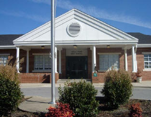 Picture of Holly Pond High.